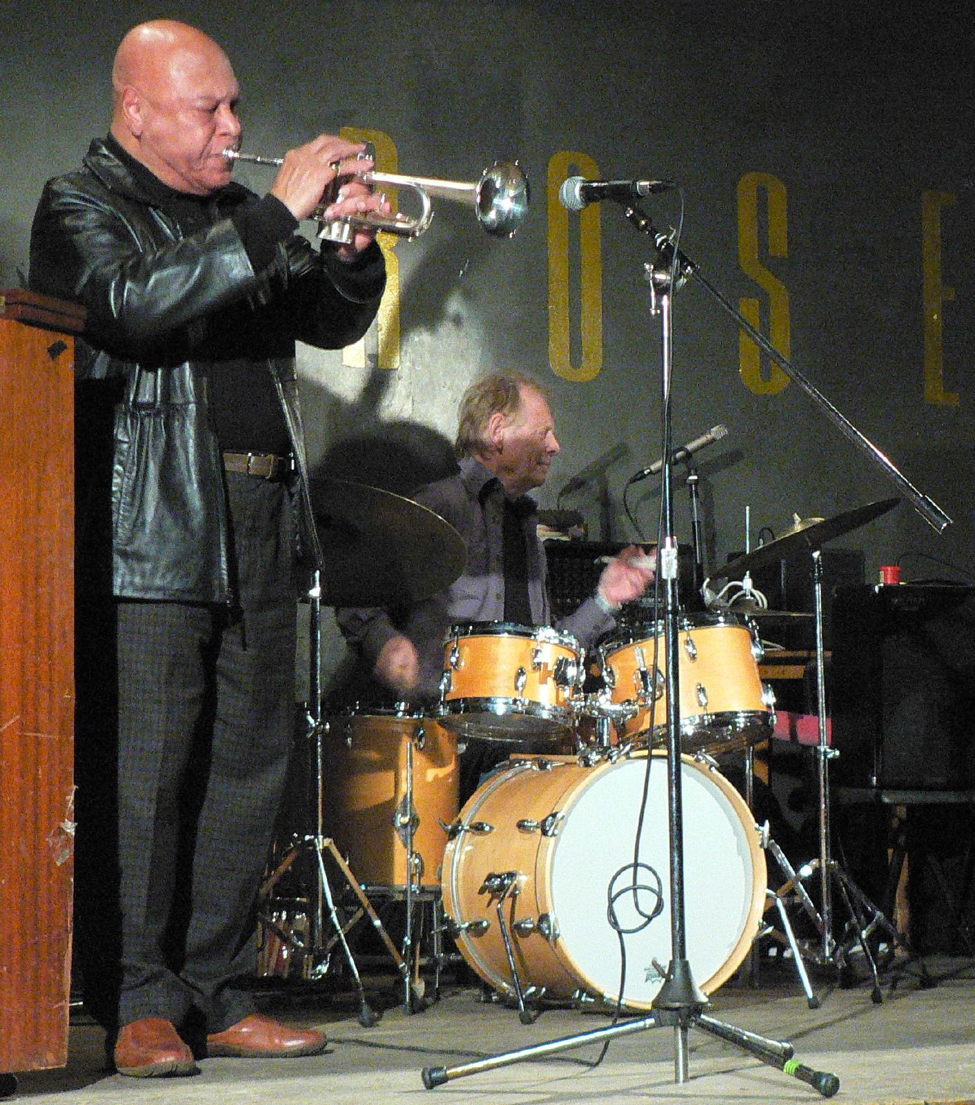 Paul Rutherford Memorial Concert. Tags at flickr: London Improvisors Red Rose Harry Beckett Tony MarshJazz Improv